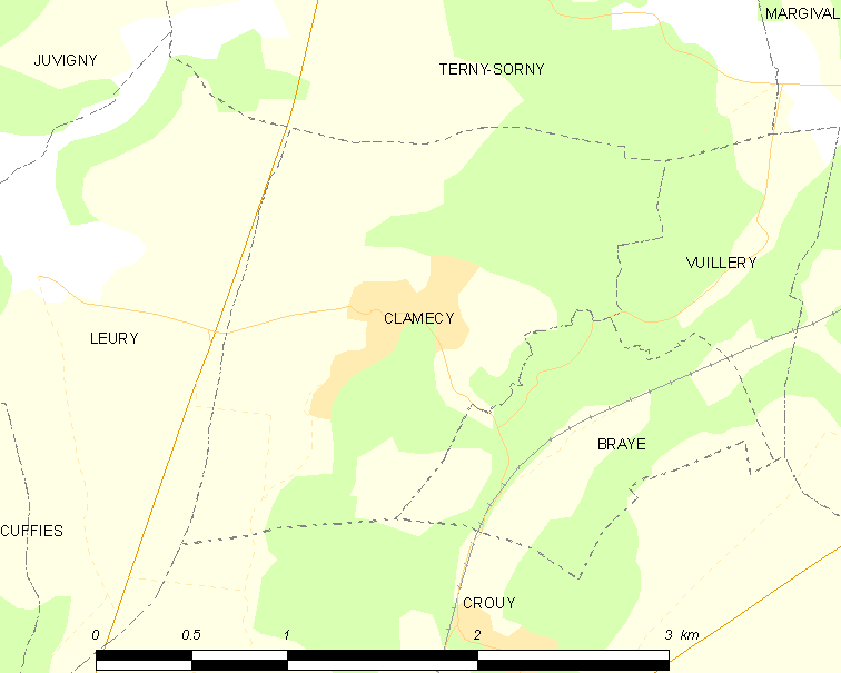 Map of French commune: Clamecy Map commune FR insee code 02198.png